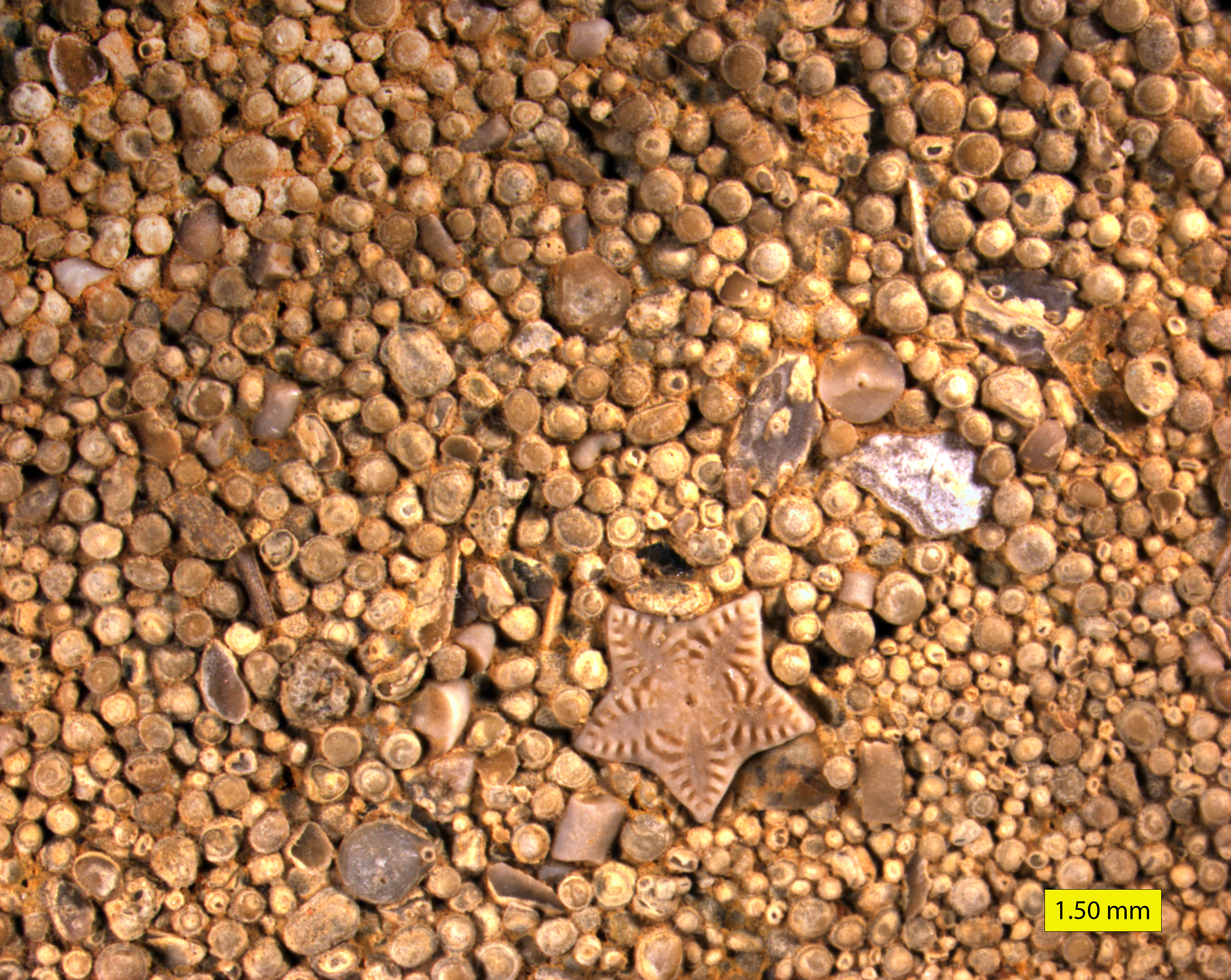 Surface of an ooid-rich limestone; Carmel Formation (Middle Jurassic), Gunlock, Utah; the scale bar is 2.0 mm.